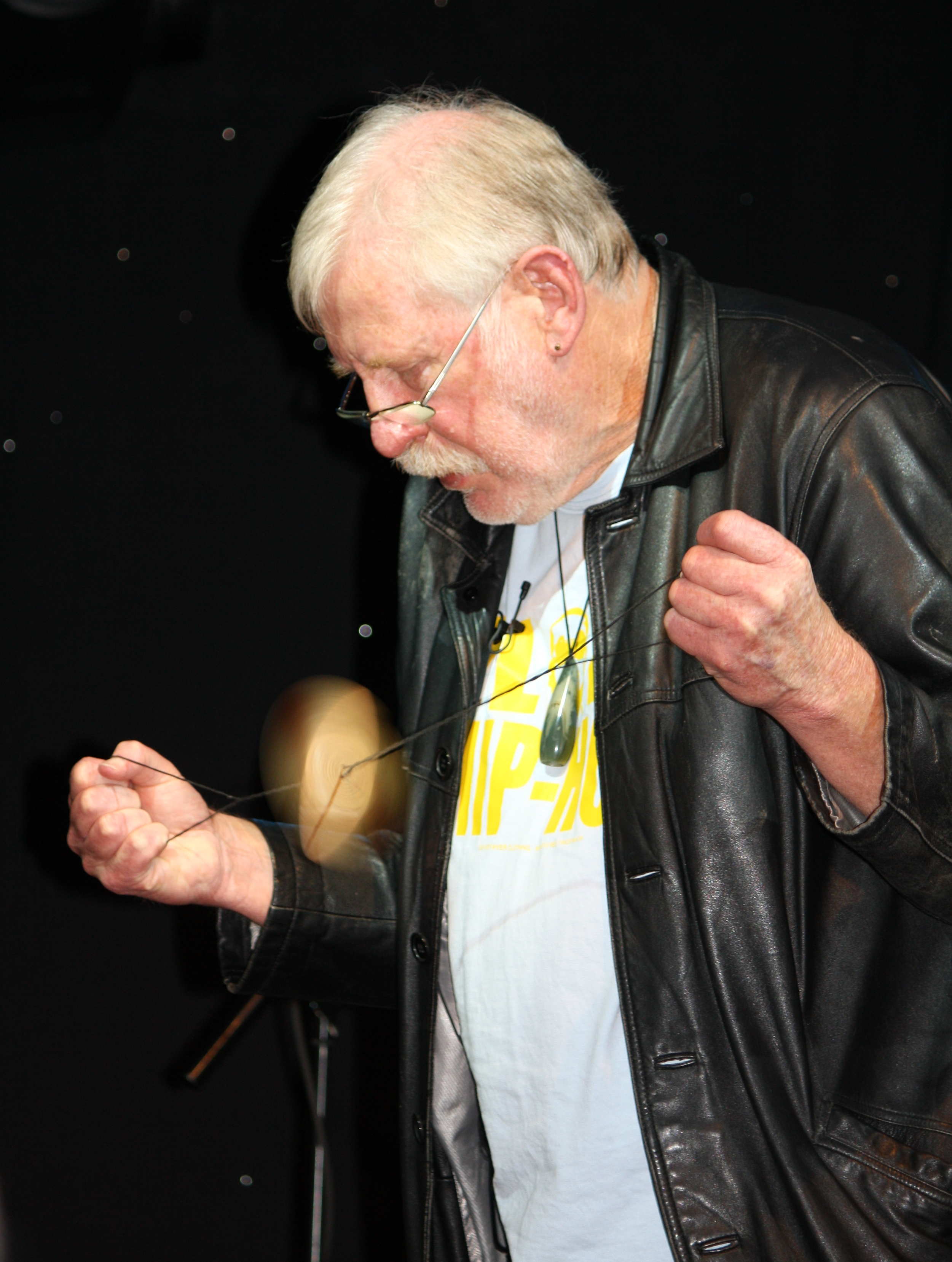 Richard Nunns in 2011 demonstrating a porotiti, a traditional Māori musical instrument. A porotiti comprises a disc with two holes in the centre, through which a large, looped string is threaded and used to make the disc spin, creating a whirring sound.